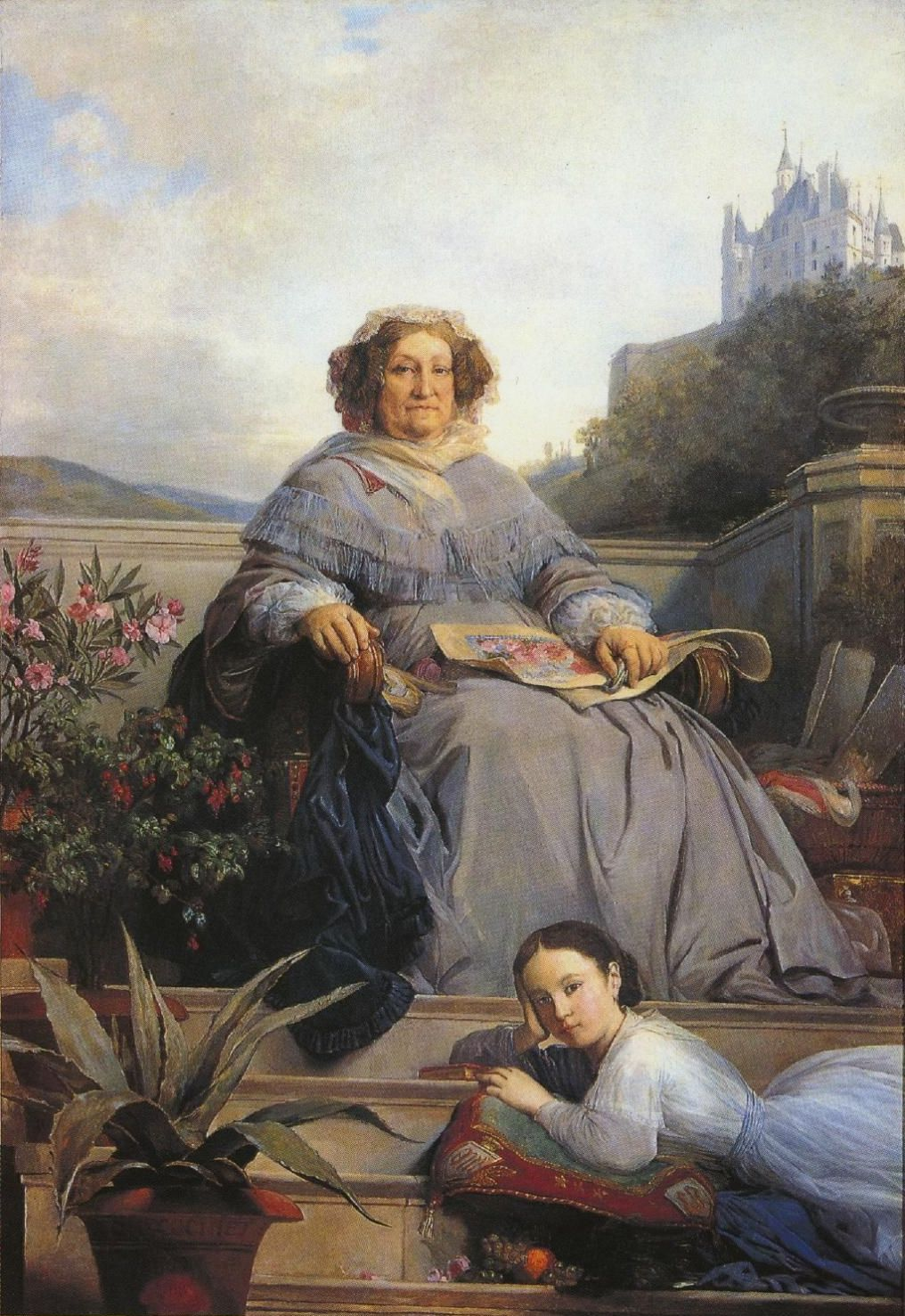 Portrait of Madame Clicquot and her great-granddaughter Anne de Mortemart-Rochechouart, future Duchesse d'Uzès. The Château de Boursault is in the background.